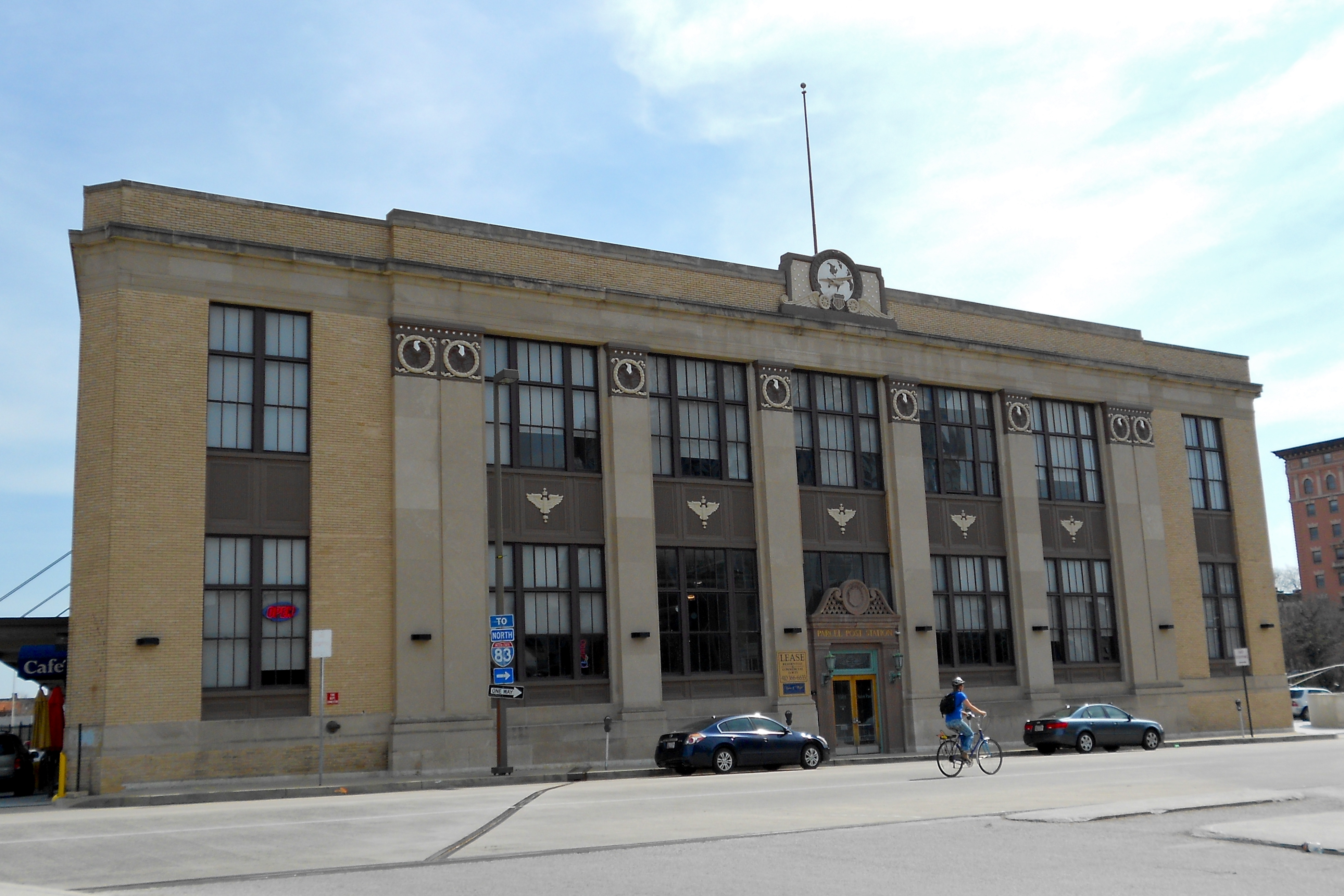 United States Parcel Post Station on the NRHP since December 27, 2002, at 1501 St. Paul St. in central Baltimore across from Union Station.